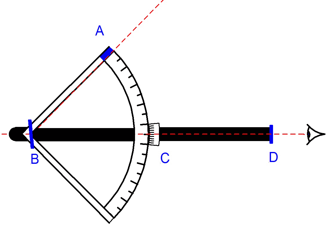 Drawing of Benjamin Cole quadrant designed around 1748